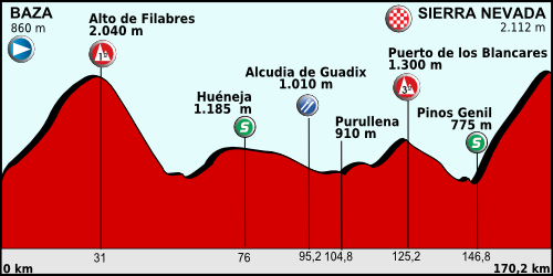 Profile of the 4th stage: Vuelta a España 2011